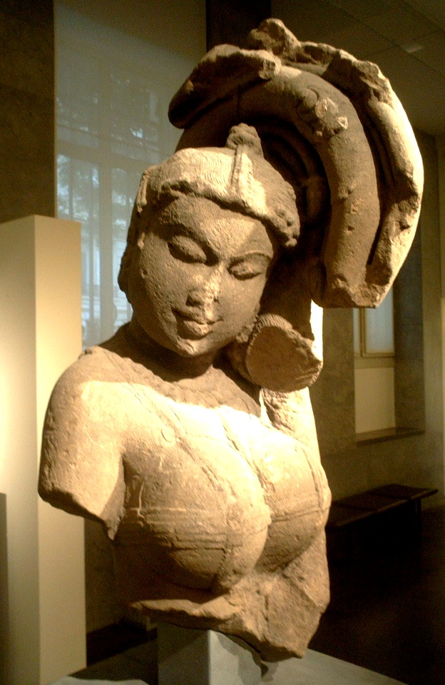 A female Yaksha, called a Yakshi. India, 10th century. Sandstone, Madhya Pradesh